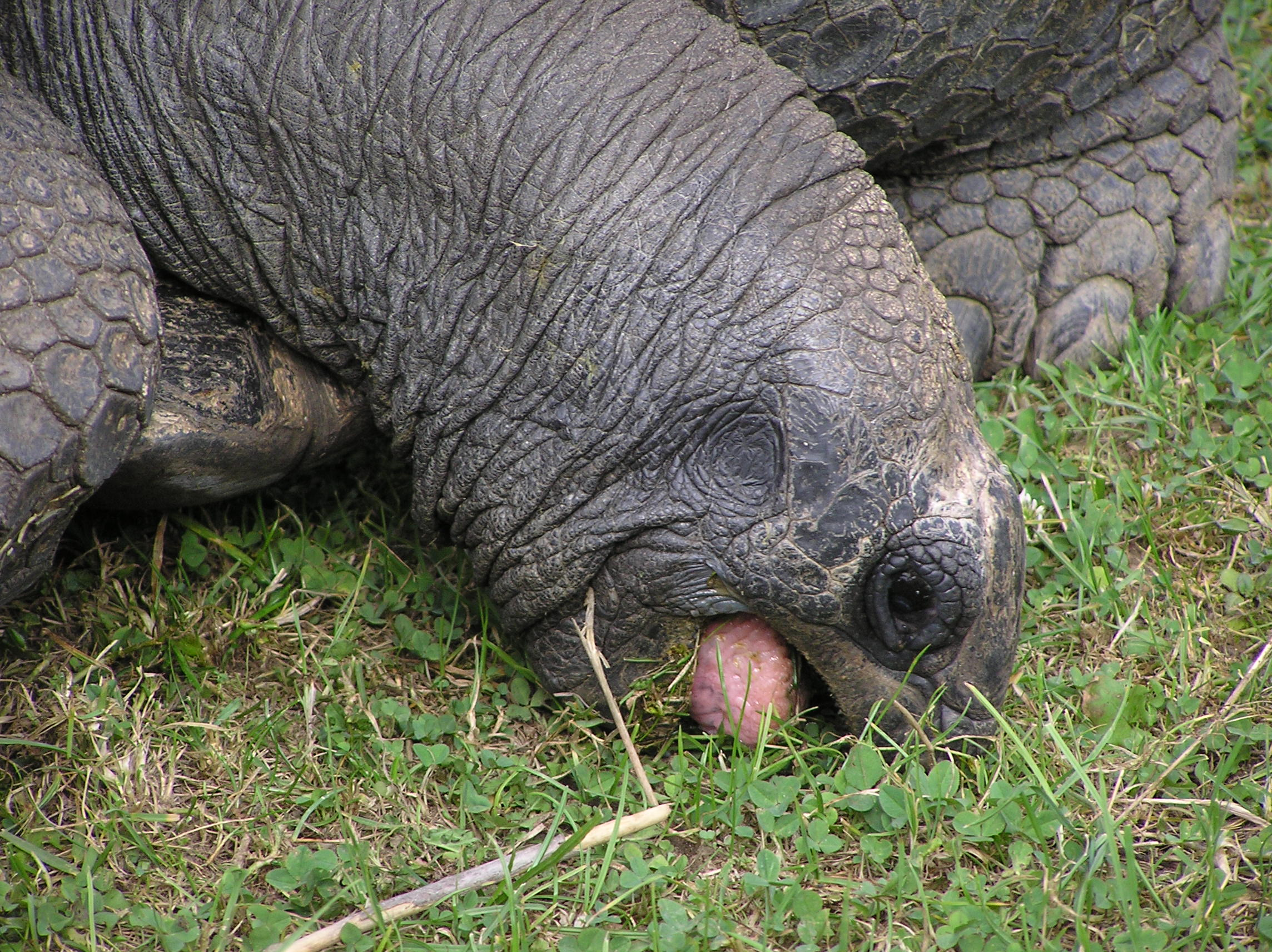 Aldabra Giant Tortoise eating grass in Prague ZOO. Photographed 2006-09-28.